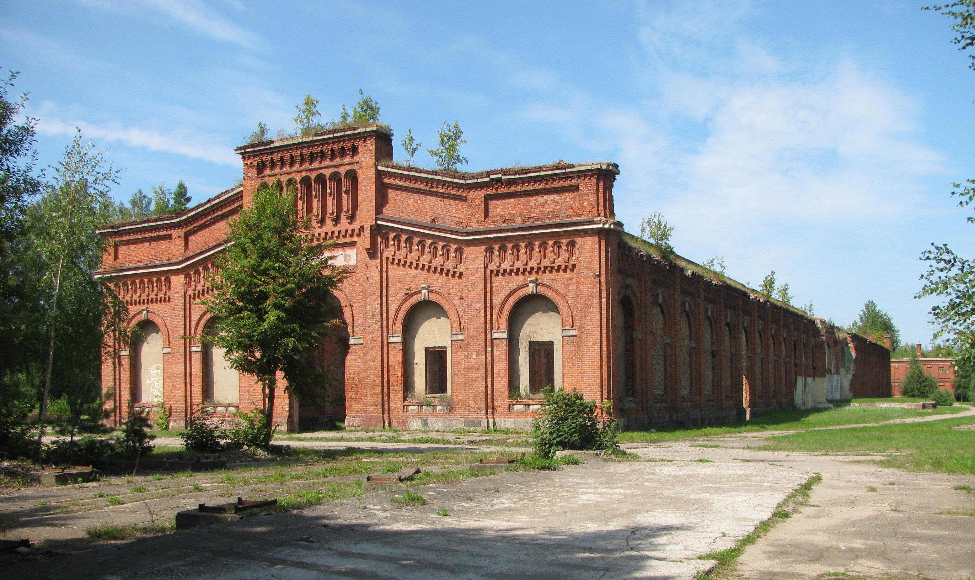 Ruins of riding arena Manēža in former military naval base Karosta, Liepāja, Latvia.